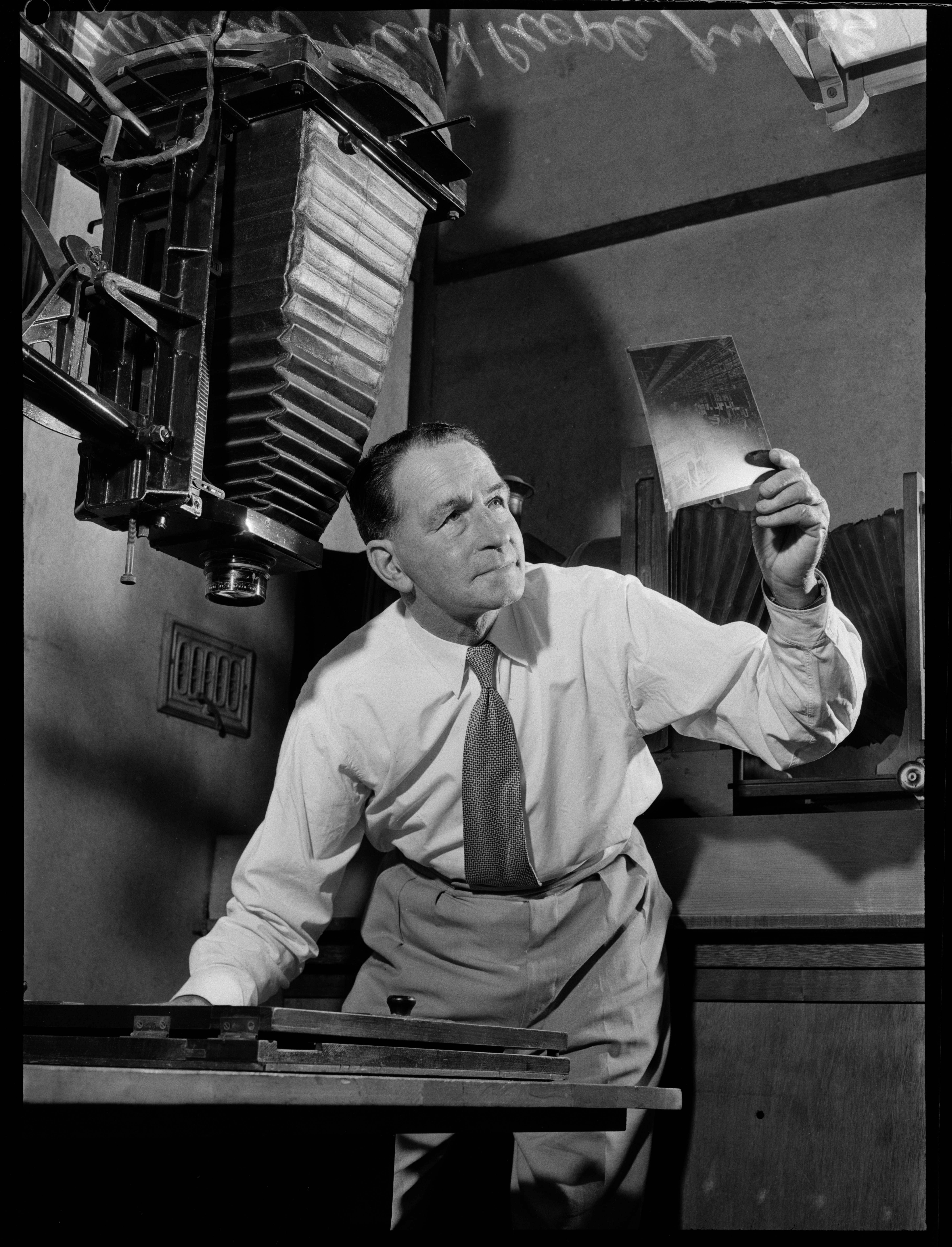 Milton Kent, photographer, from halftone print from People magazine, 15 July 1953